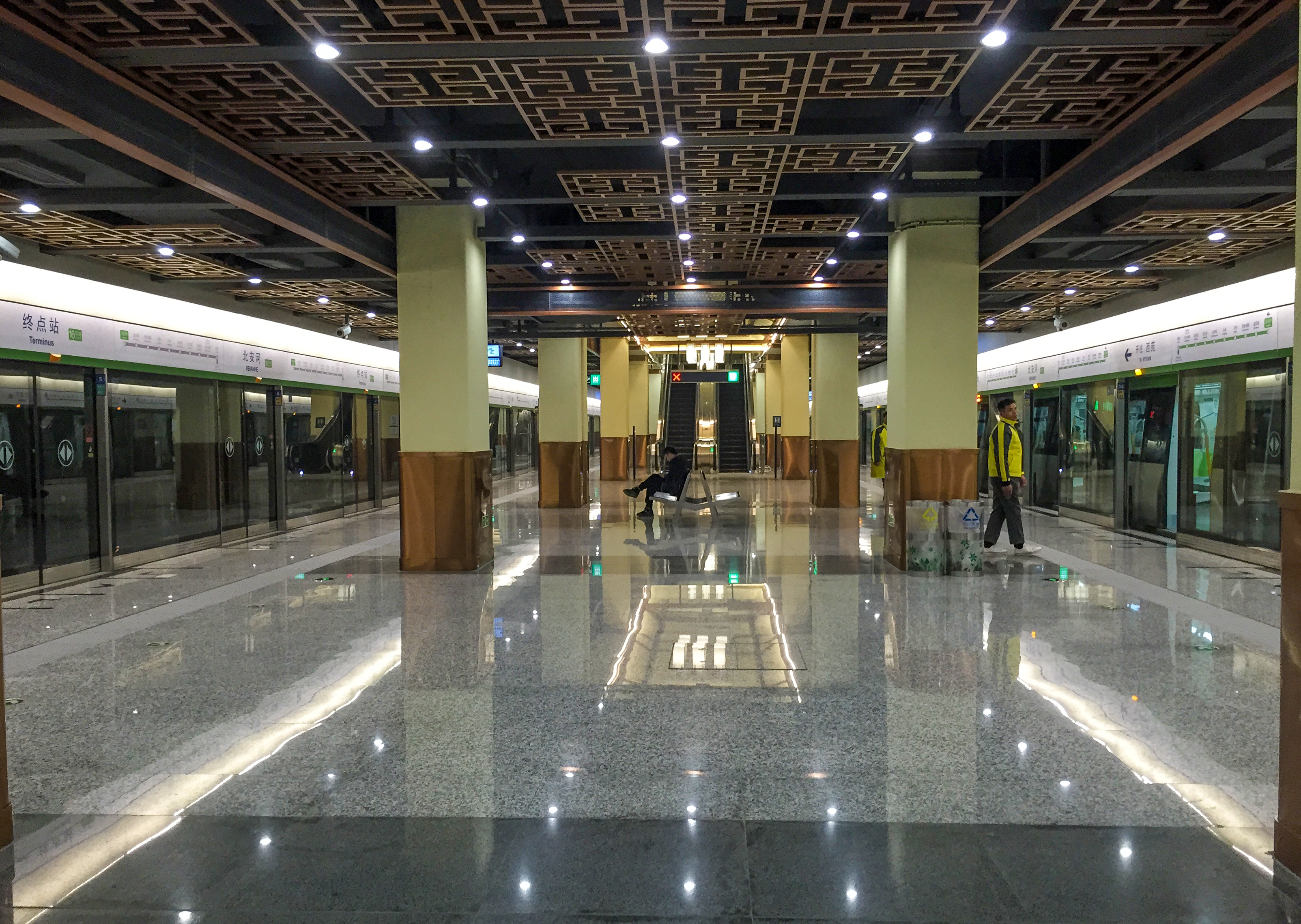 The first station on L16, and the second platform I stepped on.